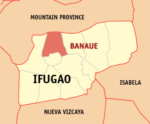 Map of Ifugao showing the location of Banaue